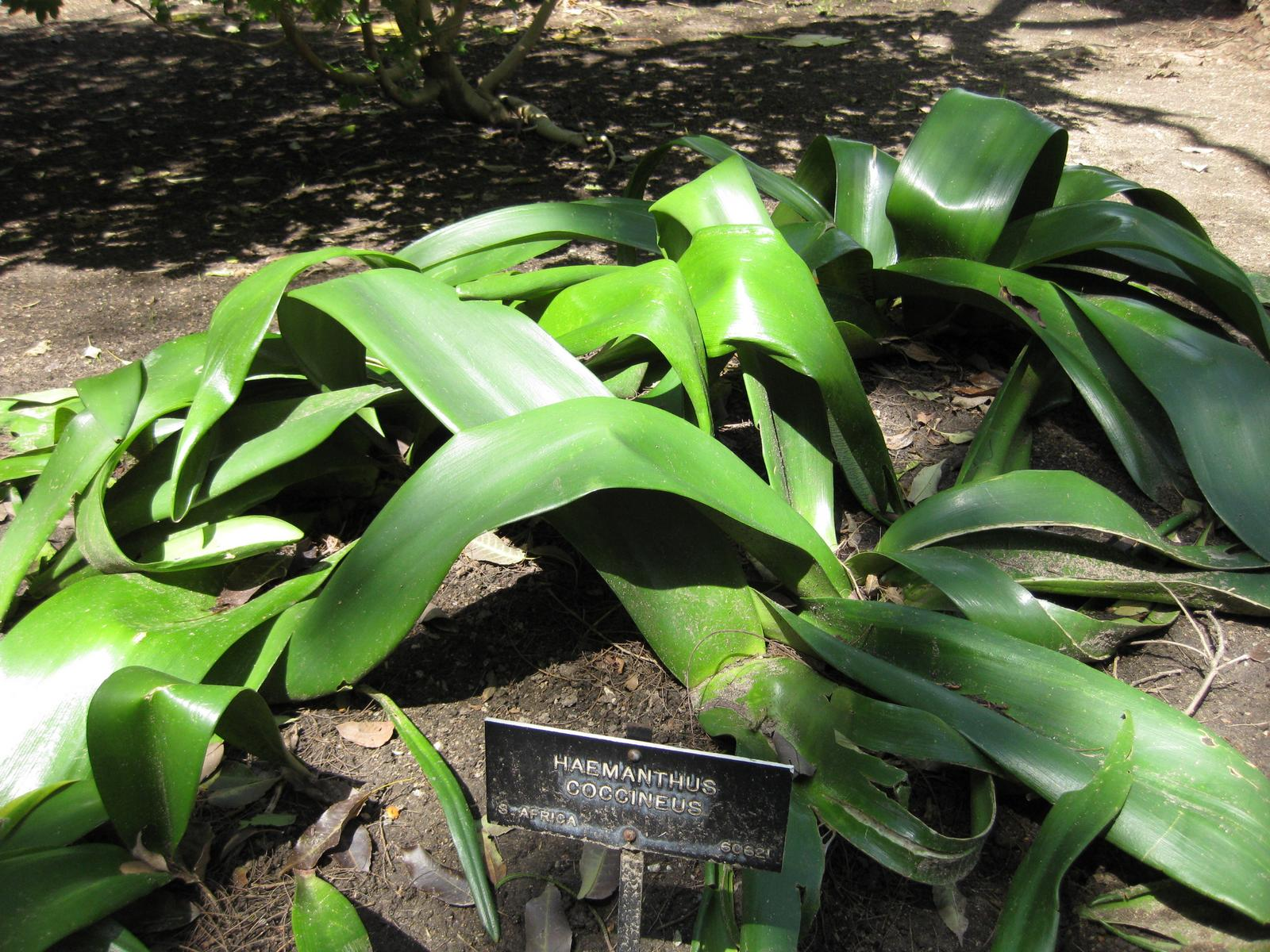 Photographed at Huntington Gardens (Los Angeles, California) in March